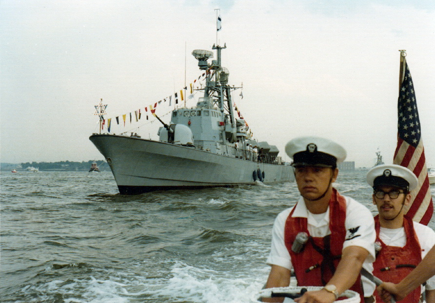 Israeli Saar Boats enter the Hudson river